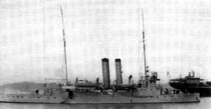 The Chinese Chu-class gunboat Chu Kuan. It was a Japanese-built river gunboat of 740 tons displacement launched in 1907. The gunboats were powered by coal-fired boilers providing a top speed of 13 knots and had a crew of 135. They were ewuipped with the follwing armament: two 12.0 cm guns; two 7.6 cm guns; three 5.7 cm guns; one 40 mm anti-aircraft gun and two machine-guns. Chu Kuan was discarded in the 1960s.